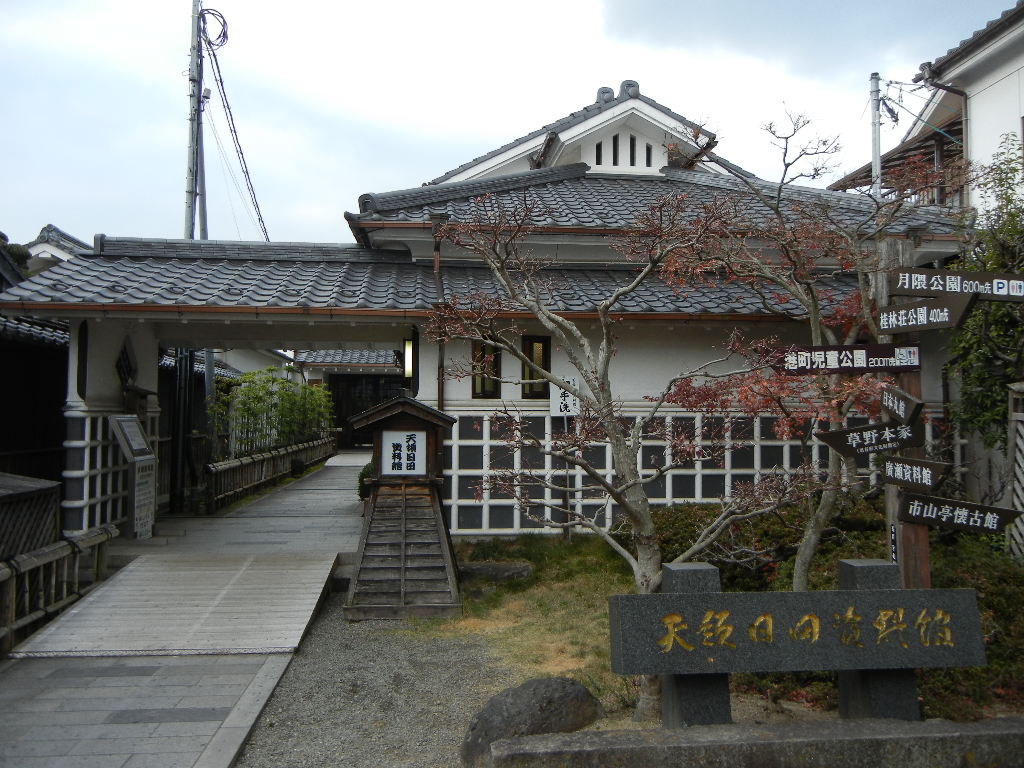 Hitatenryo-Shiryokan. 大分県日田市にある「日田天領資料館」, Hita.